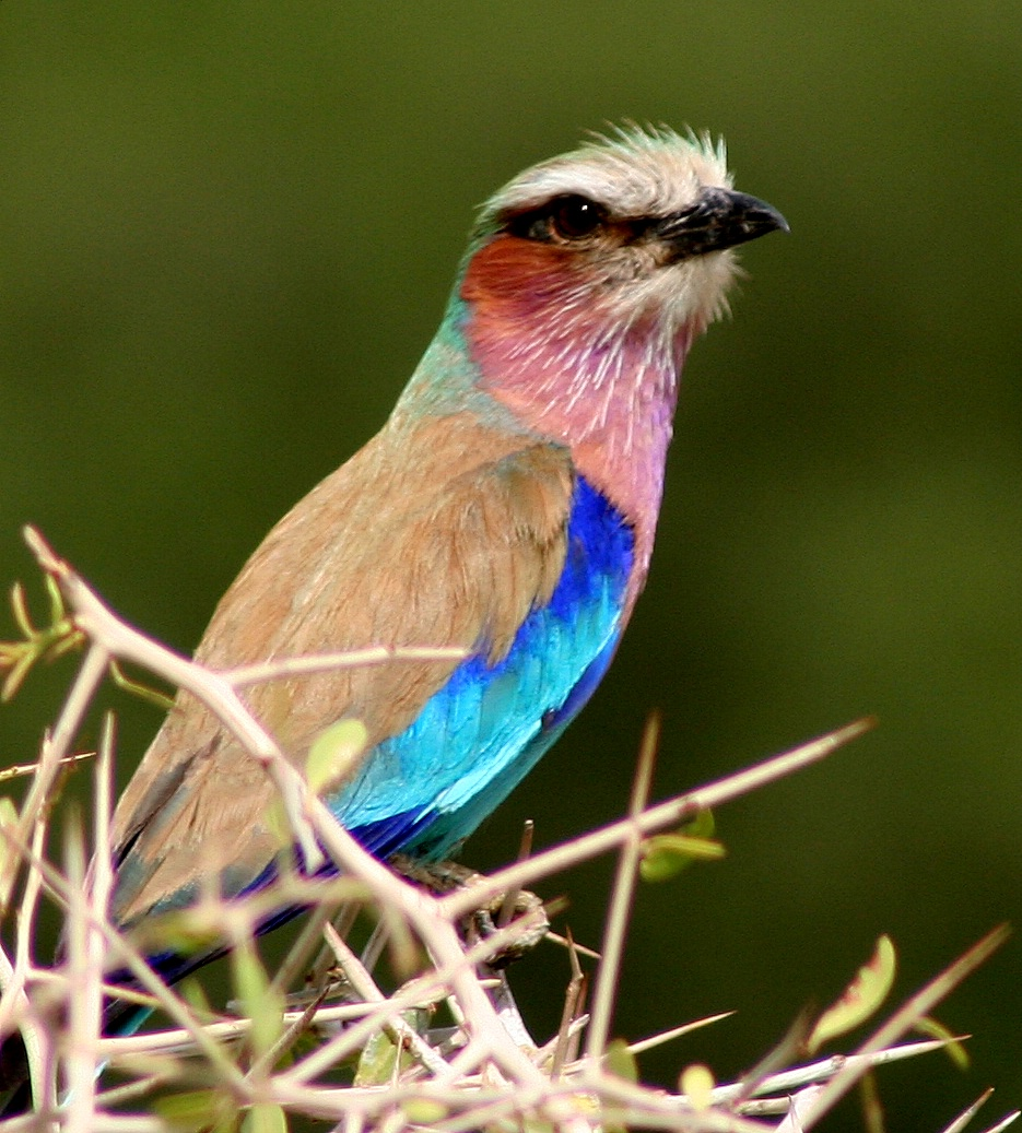 Lilac-breasted Roller (Coracias caudatus) photographed in Botswana.